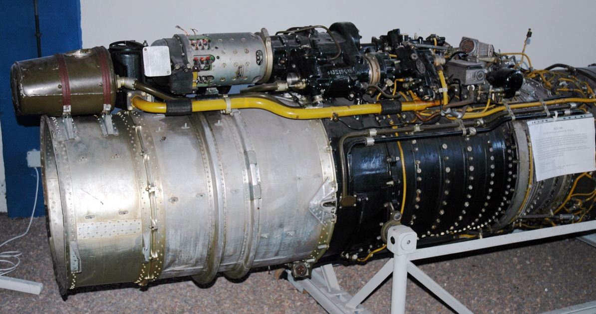 Tumansky RD-9B turbojet engine (Museum of Polish Aviation, Cracow)